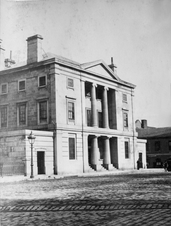 Photograph of City Bank, St. James Street at Place d'Armes, Montreal, Quebec, Canada, 1866